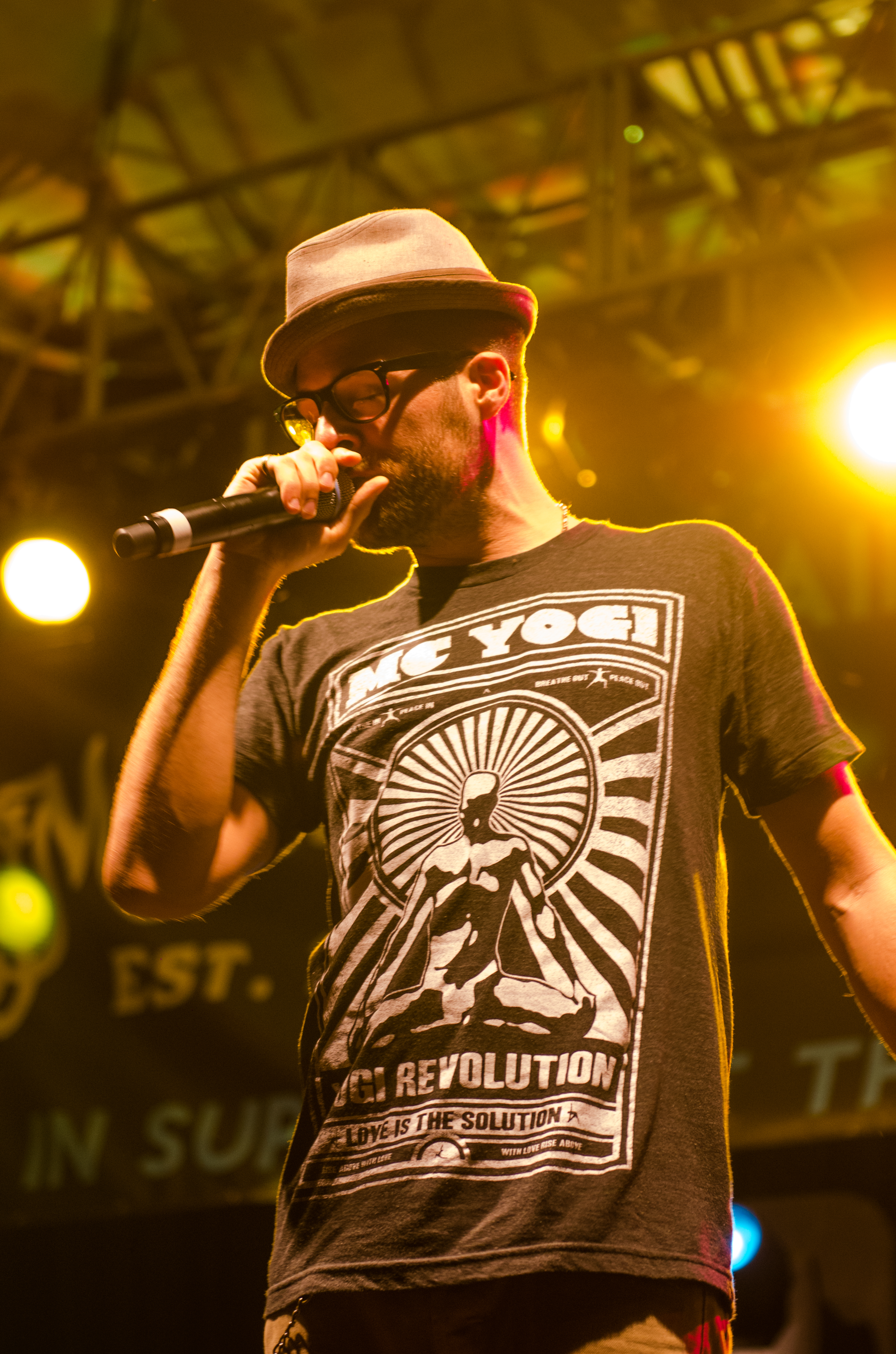 MC Yogi at Turtle Bay Resort, February 28, 2014, North Shore of Oahu island in Hawaii, February 28, 2014. Photo by Peter Chiapperino